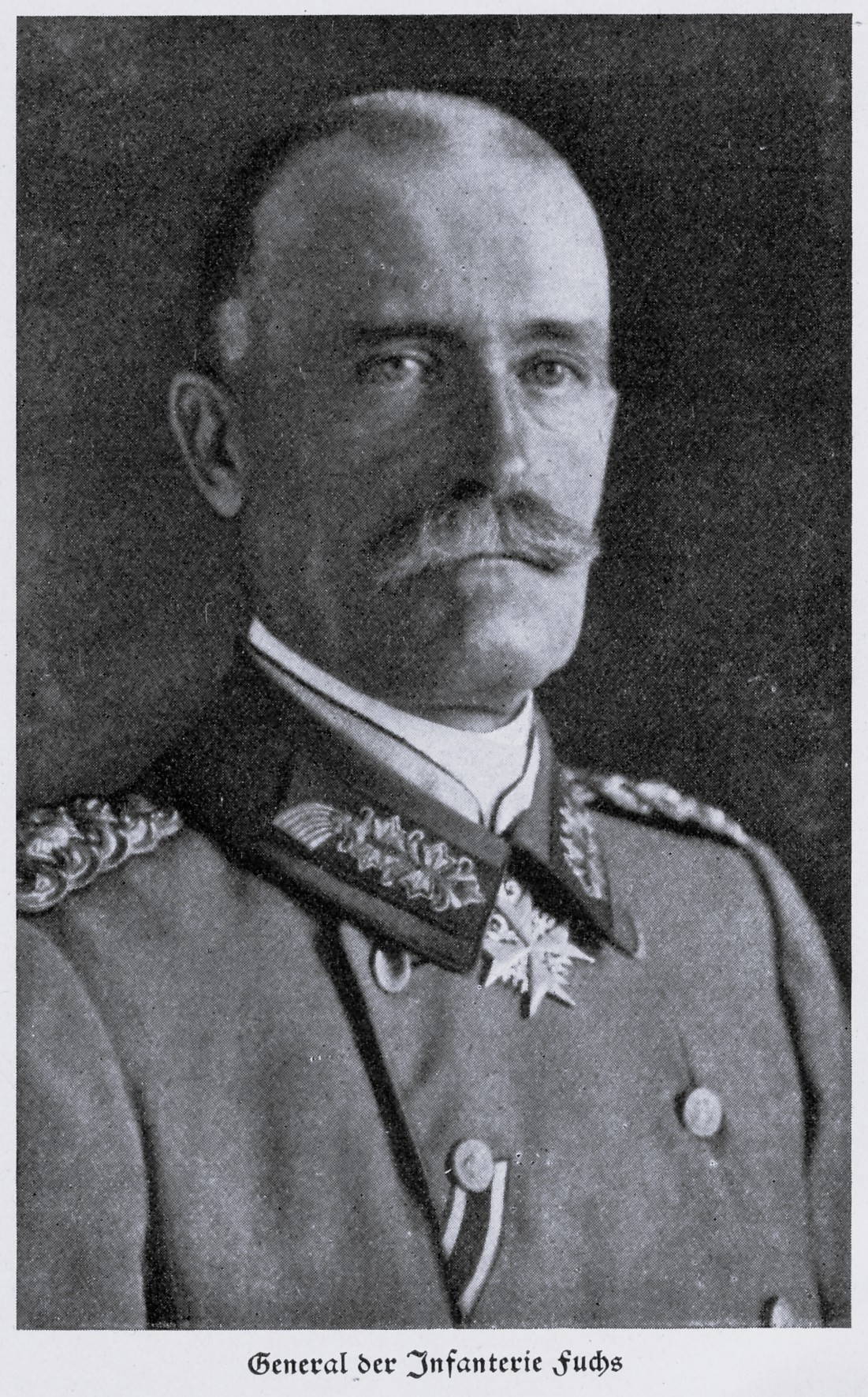 German General Georg Fuchs (WW1)